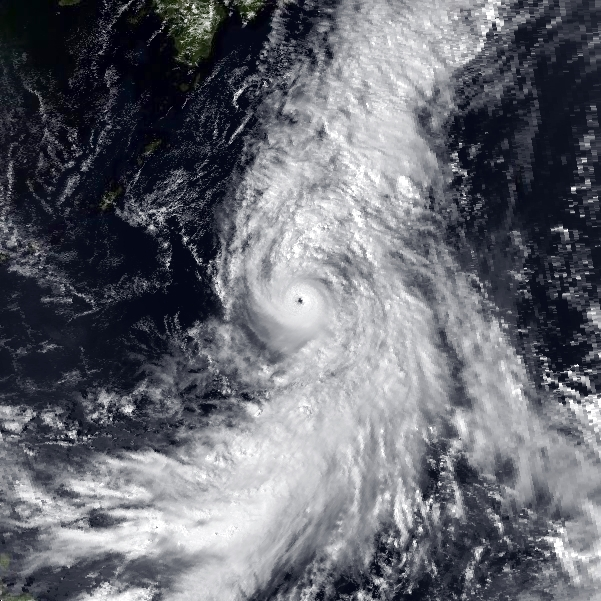 Typhoon Todd on September 17, 1998